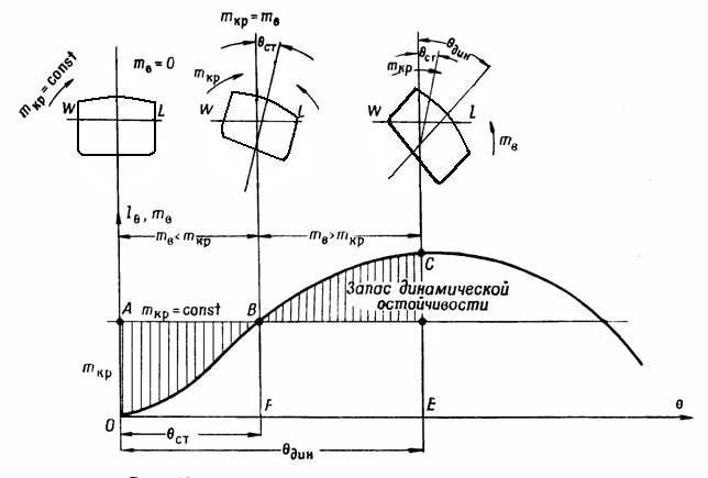 Dynamic Stability of a Ship